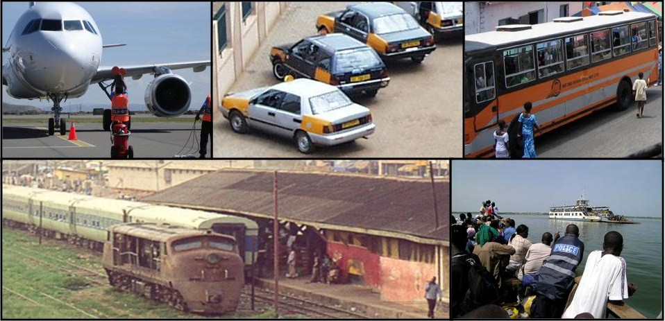 Collage of the Transport Economy and Transport Network of Ghana: 1. Ghanaian national passenger Airlines Aircrafts Boeing 757, in Ghana. 2. The Ghanaian Taxicab Service, in Ghana. 3. The Ghanaian Bus Rapid Transit, in Ghana. 4. The Ghanaian Rail Transport and Kumasi Train Station, in Ghana. 5. The Ghanaian Ferry Transport (Water Bus or Water Taxi).